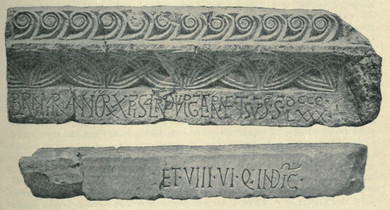 Croat duke Branimir mentioned on inscription. In: Klaić Vjekoslav (1889). Povjest Hrvata : od najstarijih vremena do svretka XIX. Stoljeća. Zagreb, Knjižara Lav. Hartmana, pg 65.